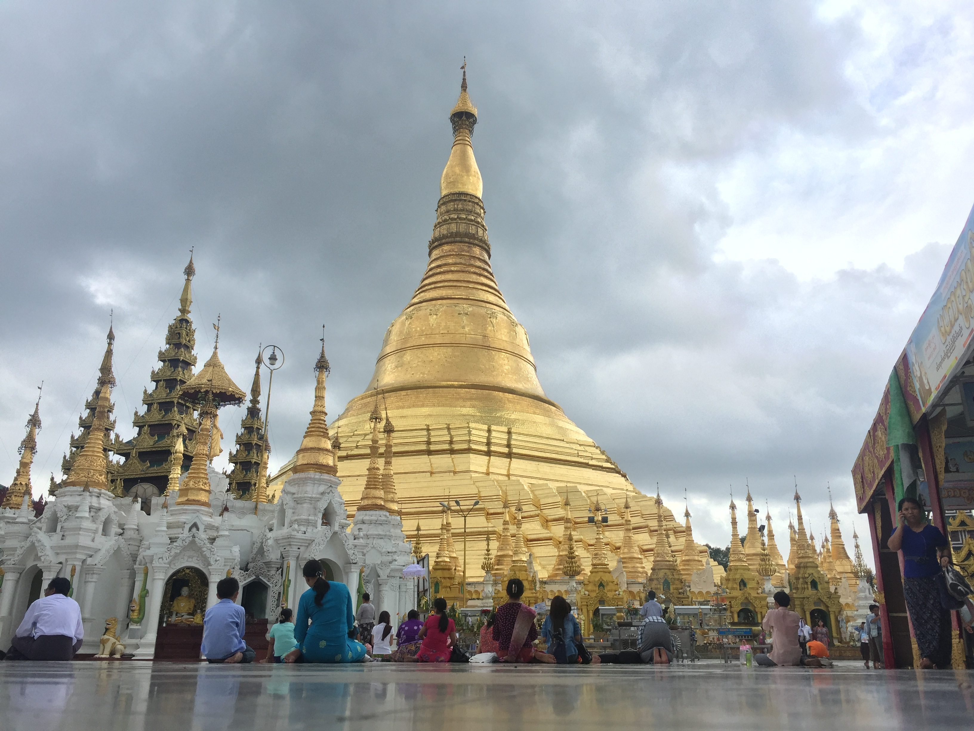 Picture of Shwe Dagon pagoda in 2016.